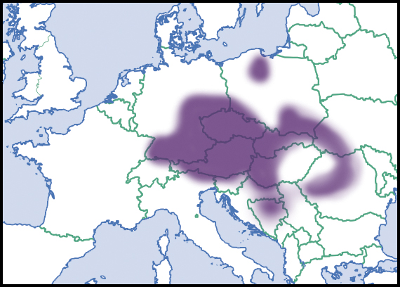 Urticicola umbrosus (Pfeiffer, 1828). Distribution in Europe, scientific state of knowledge of 2012. Source description in English. Light colour indicated rare occurrences or regions where the species could eventually be expected to occur. Dark colour indicated relatively reliable occurrences, as well as regions where the species was expected to occur, and where the species was not known to be extremely rare. Dark colour indications were not necessarily based on published records. Species summary in AnimalBase